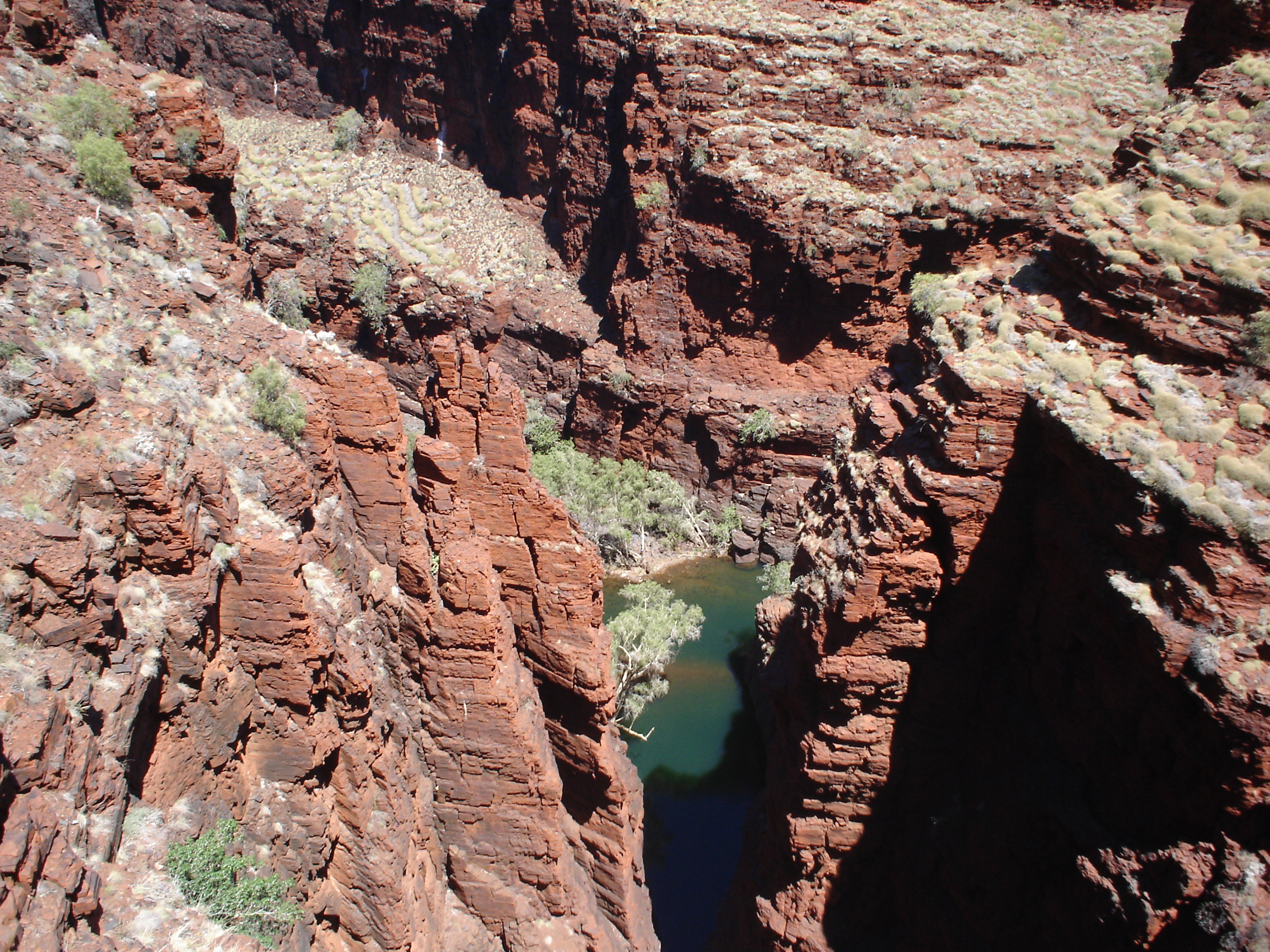 Oxers lookout, looking towards Junction Pool and Red Gorge in Karijini National Park